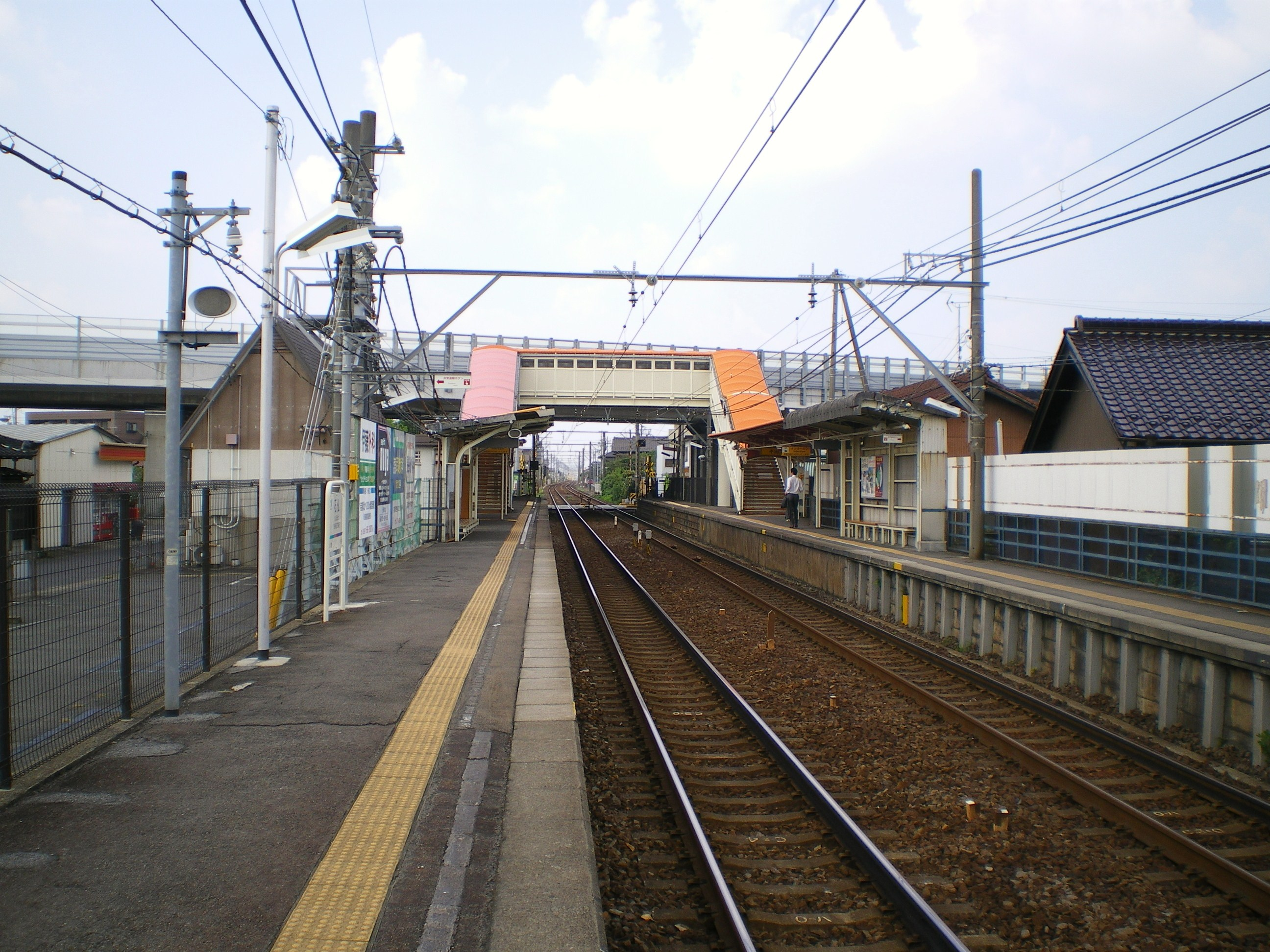 Nagoya Railroad Inuyama Line Ishibotoke Station Platform